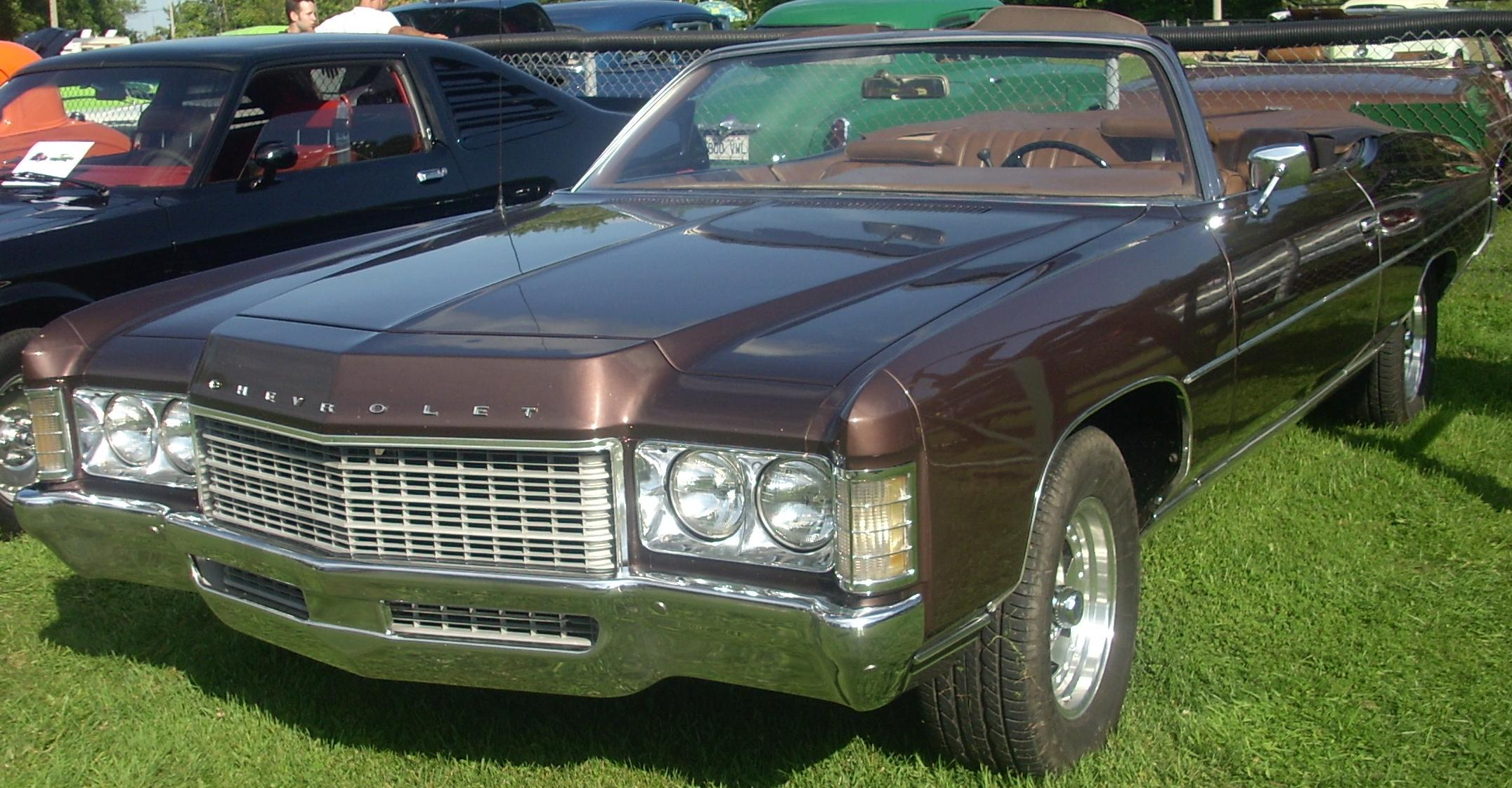 1971 Chevrolet Impala photographed at the Rassemblement Rigaud Car Show.